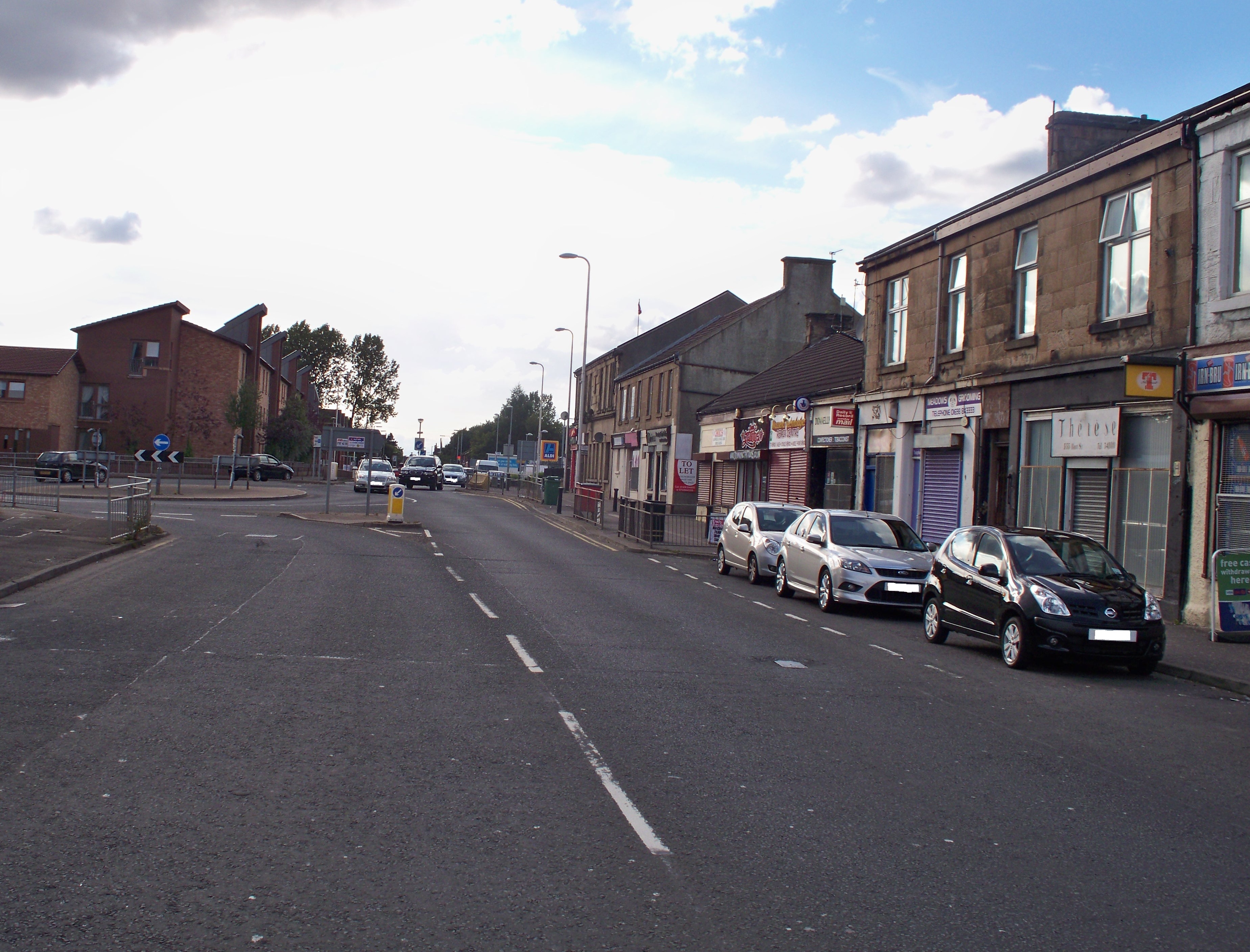 Picture Of Main Street Mossend